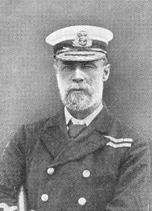 Admiral Sir Arthur Knyvet Wilson.